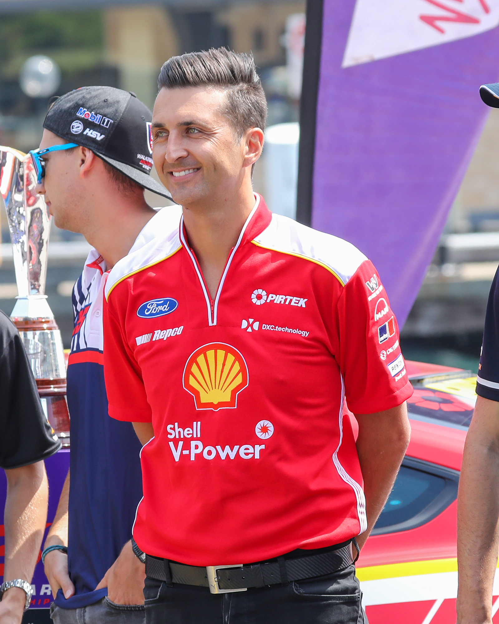 Fabian Coulthard at the 2020 Supercars season launch